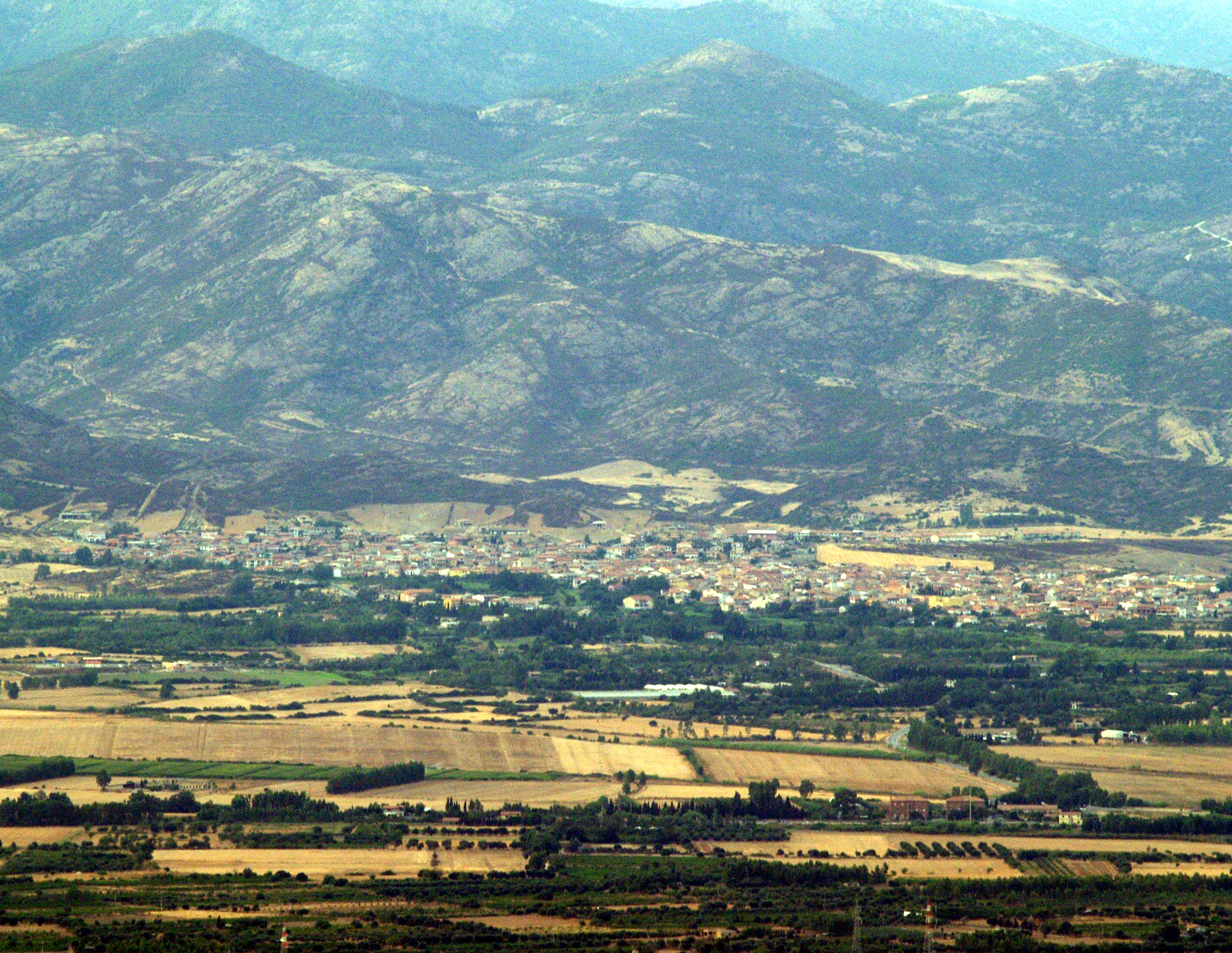 General view of Domusnovas (province of Carbonia-Iglesias, Sardinia, Italy)